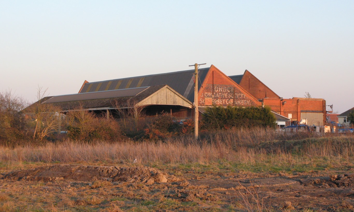 The former creamery (milk factory) at St Georges, Somerset, England. This was built by the London Co-operative Society as a railhead for local milk producers and was served by a siding from the adjacent Puxton railway station. It is now used by a commercial motor vehicle engineering business. The view is from the west with the railway line on the far side of the building; the level crossing and station are out of the picture to the left.